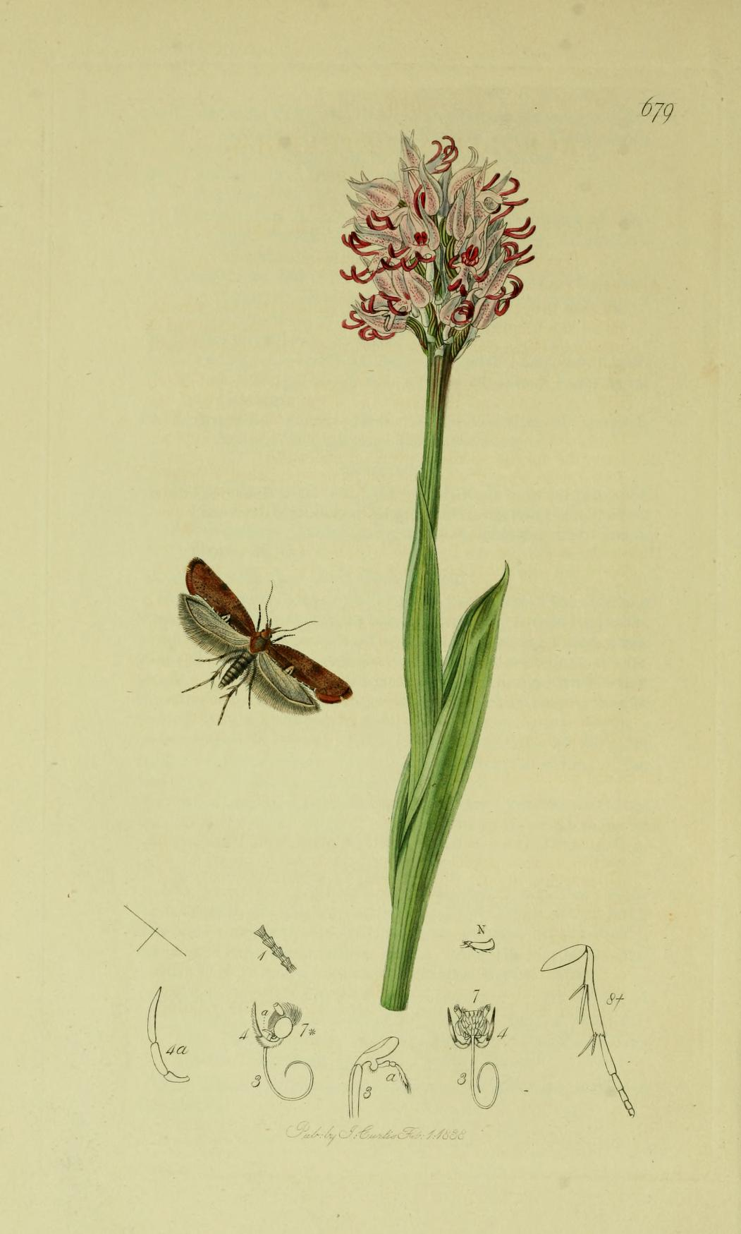 An illustration from British Entomology by John Curtis. Lepidoptera: Acrolepia betulella Curtis or Acrolepiopsis betulella (Curtis), Durham Tinea